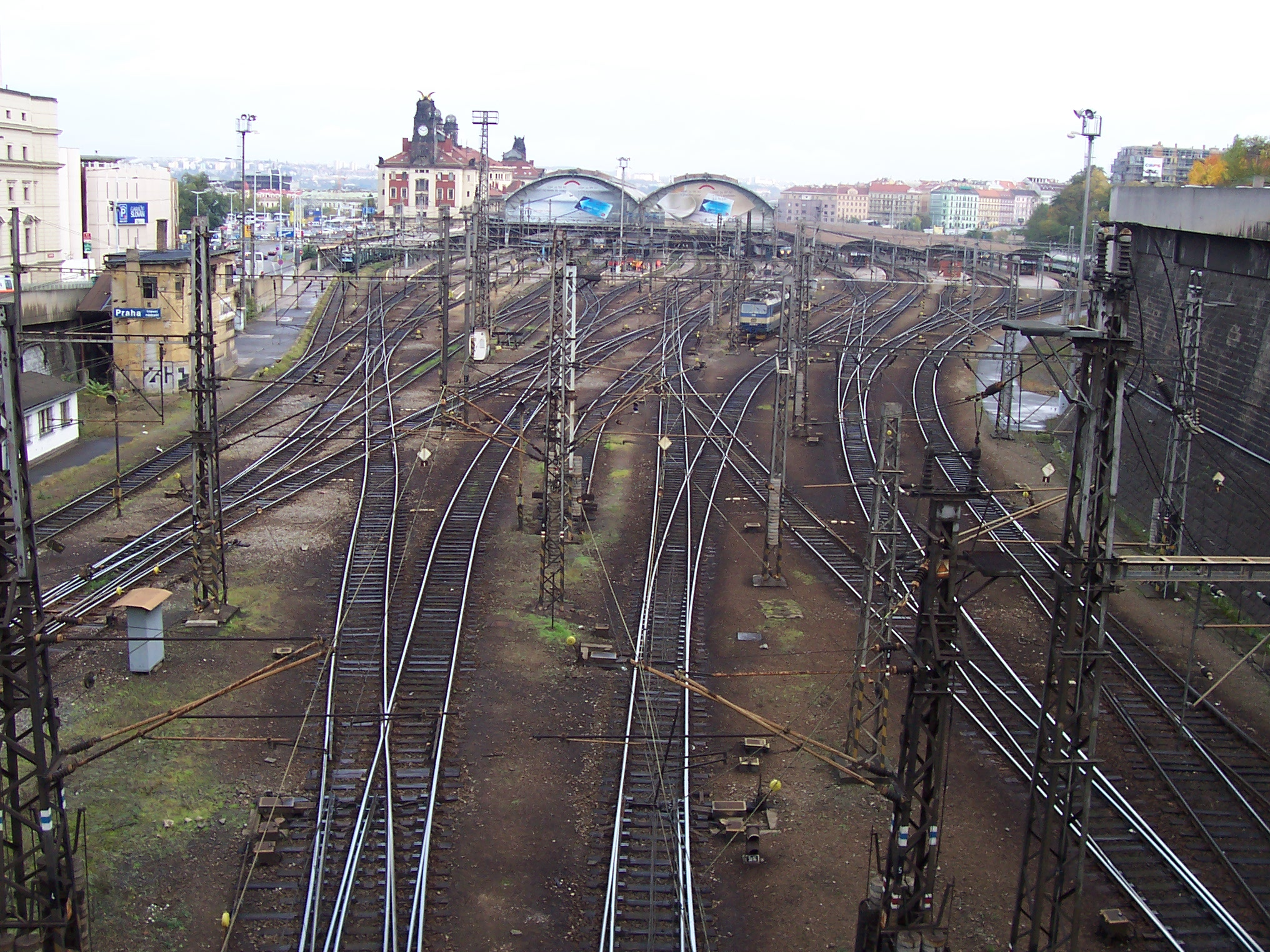 Prague's Main Train Station, view from Vinohradská. Autorem fotografie je Křžut, 19.10.2007. Photo taken by Křžut, 19.10.2007.